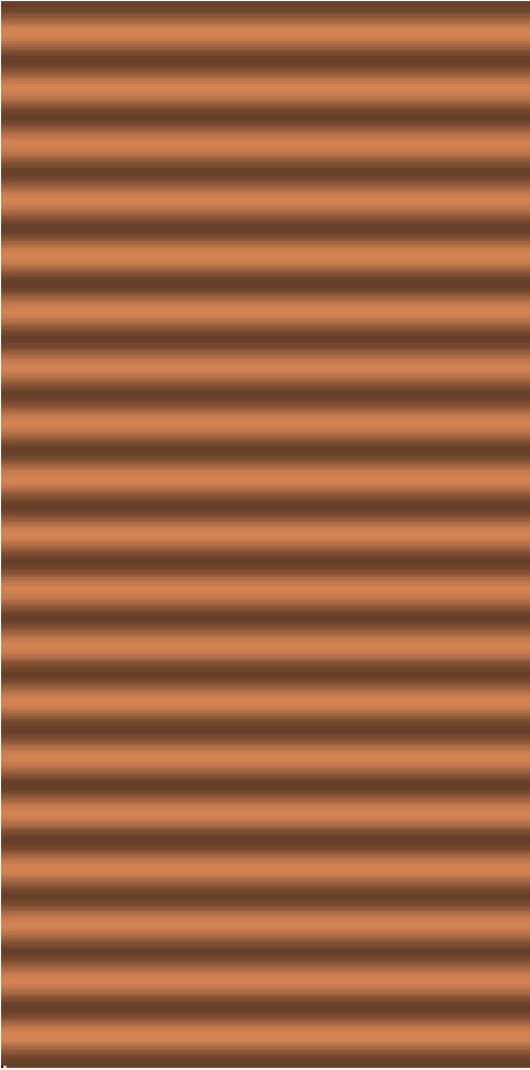 Illustration of plane wave.